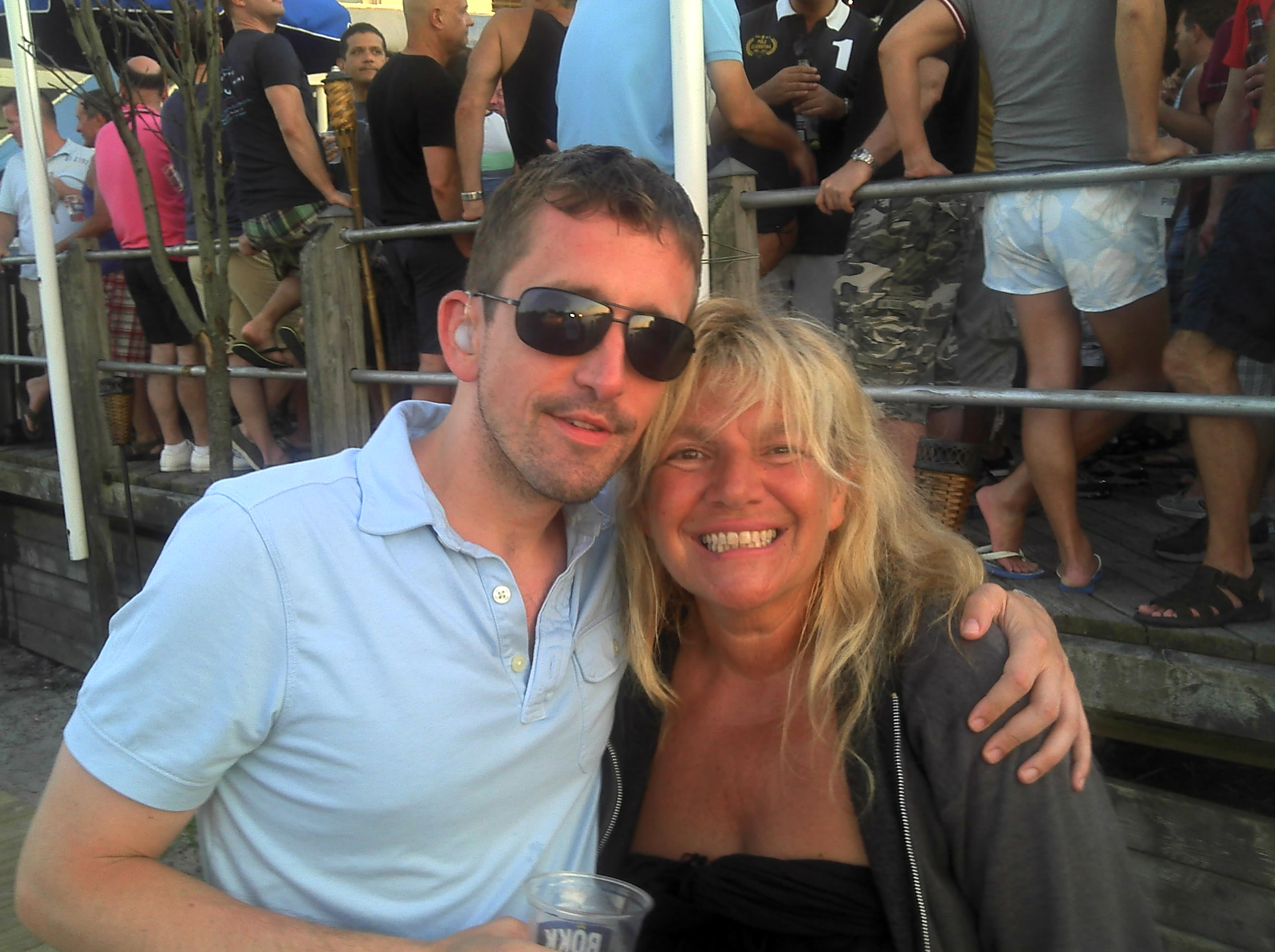 Brian Doherty of the AICP with Robin Byrd on Fire Island.